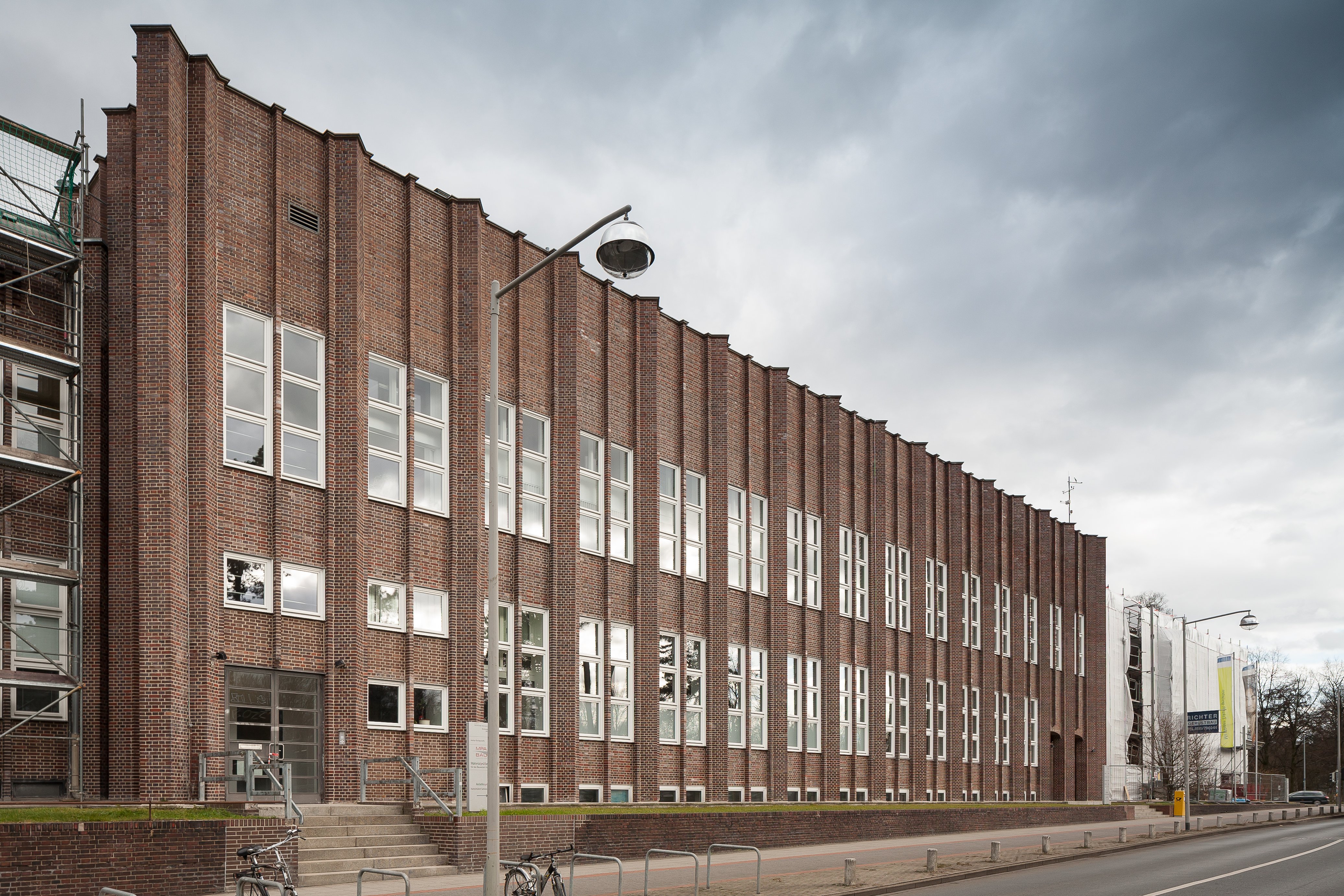 University building located at Nienburger Strasse and Schneiderberg in Nordstadt district, Hanover, Germany.